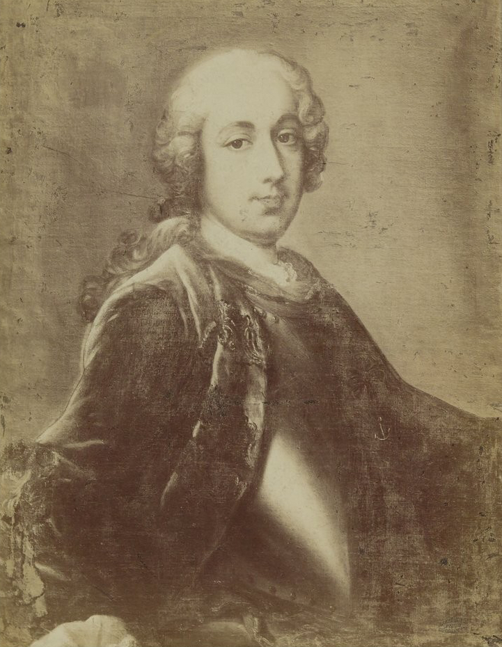 Signed by d'Entrecasteaux in 1791 and presented to the hydrographer Beautemps-Beaupré, from a photograph of the original in the private collection of M. Beautemps-Beaupré, Conseiller honoraire à la Cour d'appel de Paris, published by Baron Etienne Hulot in the Bulletin de la Société de Géographie, 3e Trimestre, 1894; location of the original now unknown Rex Nan Kivell Collection NK7415; Pictorial Collection